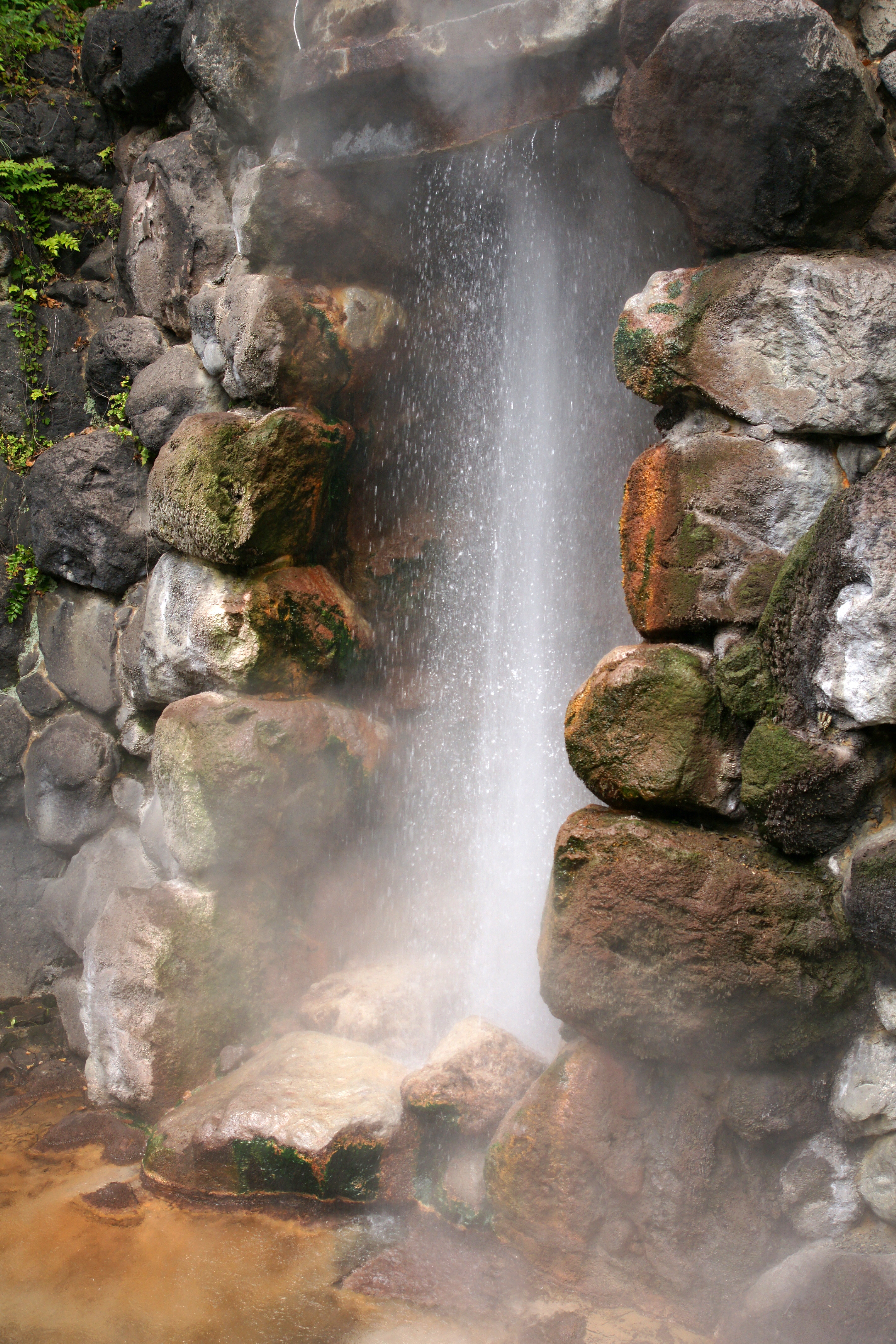 Tatsumaki Jigoku of Beppu Jigokumeguri, Beppu, Oita prefecture, Japan